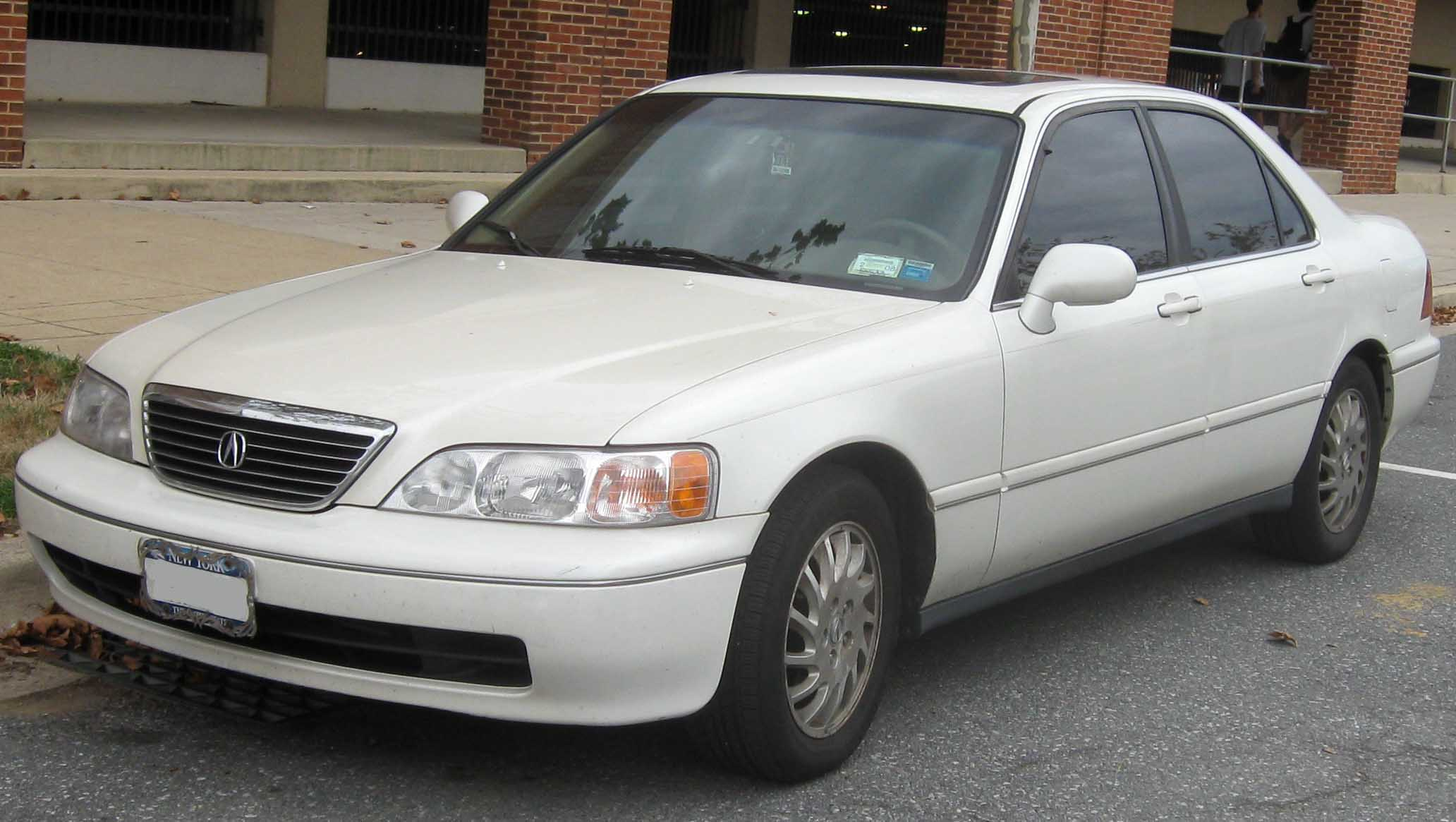 Acura RL photographed in College Park, Maryland, USA.